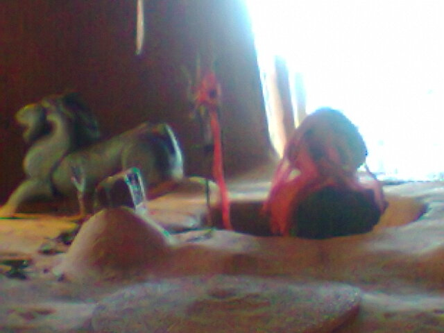 Dhuleshhwar